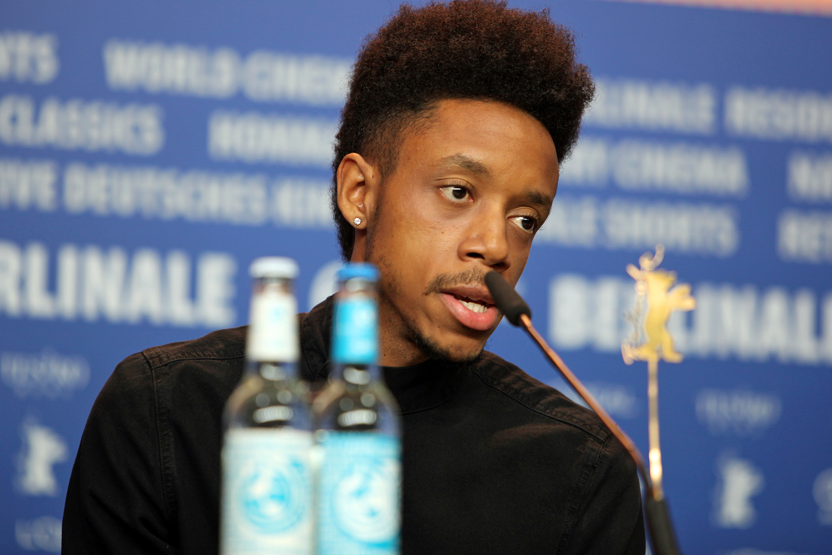 American actor Darrell Brit-Gibson ("The Wire") at the Berlinale on 16 February 2016.